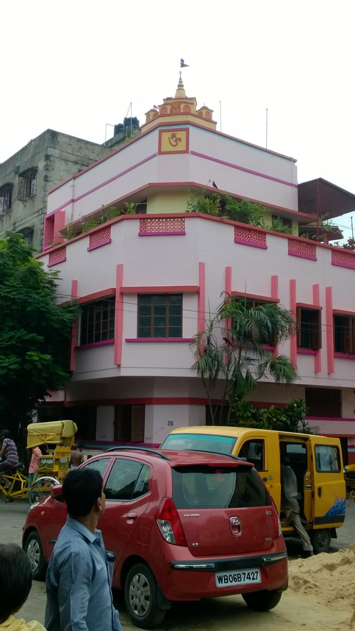 Sri Sri Radha Mohan Jew/ jeu temple (panbagan thakur bari)